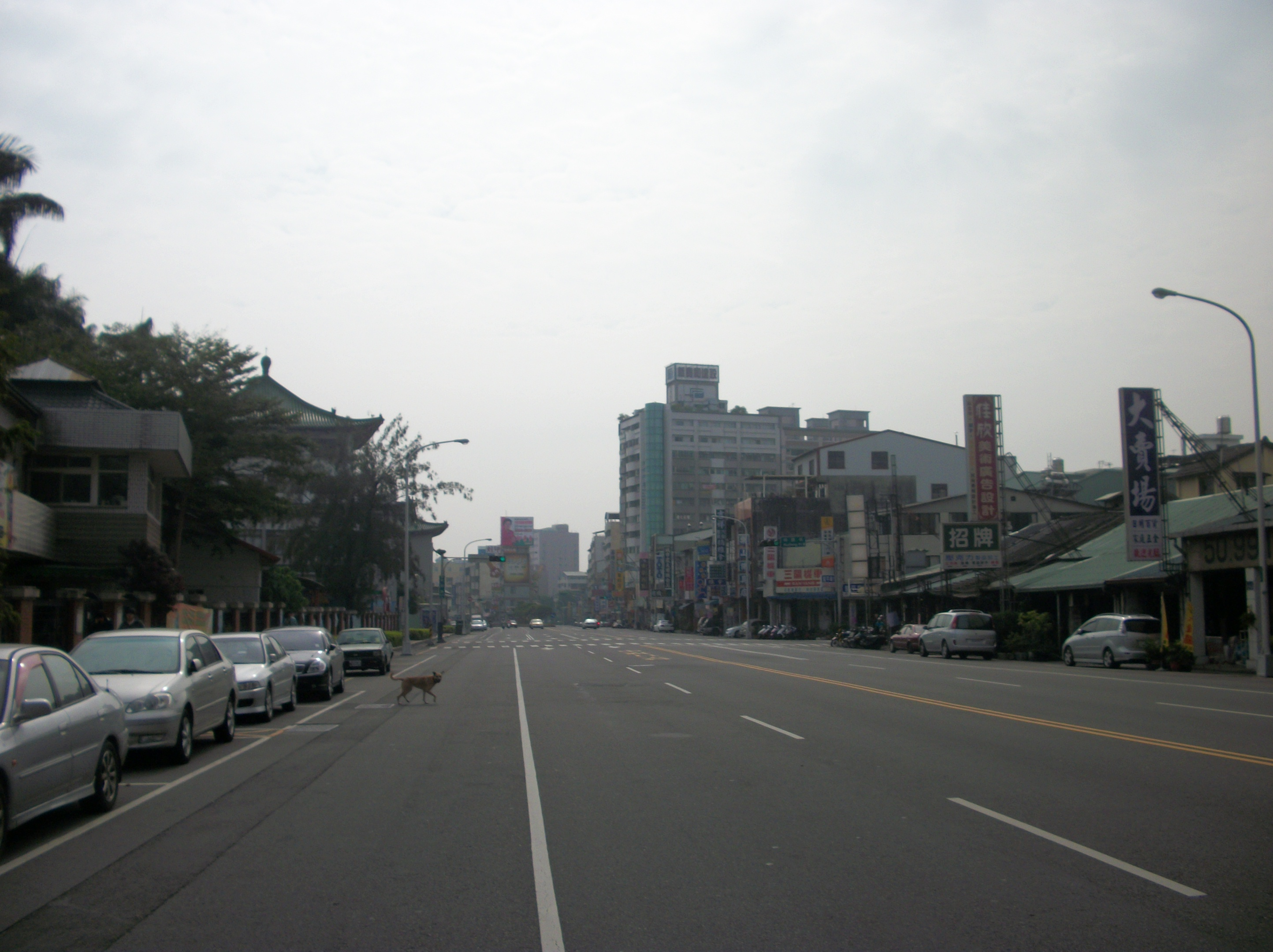 Outside of the Taichung Agricultural High School.